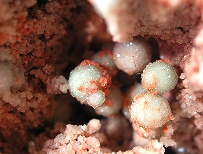 Hilgardite, Boracite Locality: Boulby Mine, Loftus, North Yorkshire, England, UK (Locality at ) Size: 5.5 x 4.5 x 3.4 cm. Microcrystalline red-orange hilgardite encasing boracite, from this classic locale that was revisited by mineral collectors in the late 90s. Ex. Martin Zinn Collection.